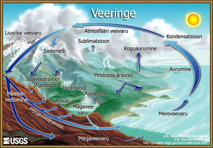 Scheme in Estonian of water cycle.